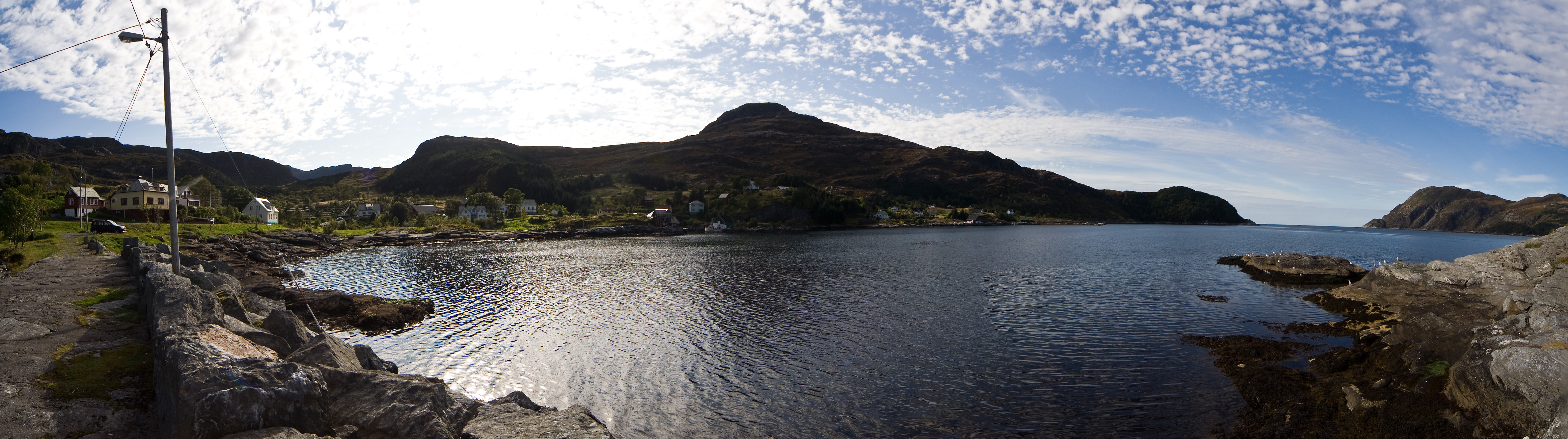 This stitch shows the small community Husevåg on Husevåg island. The photos were taken from the harbor.